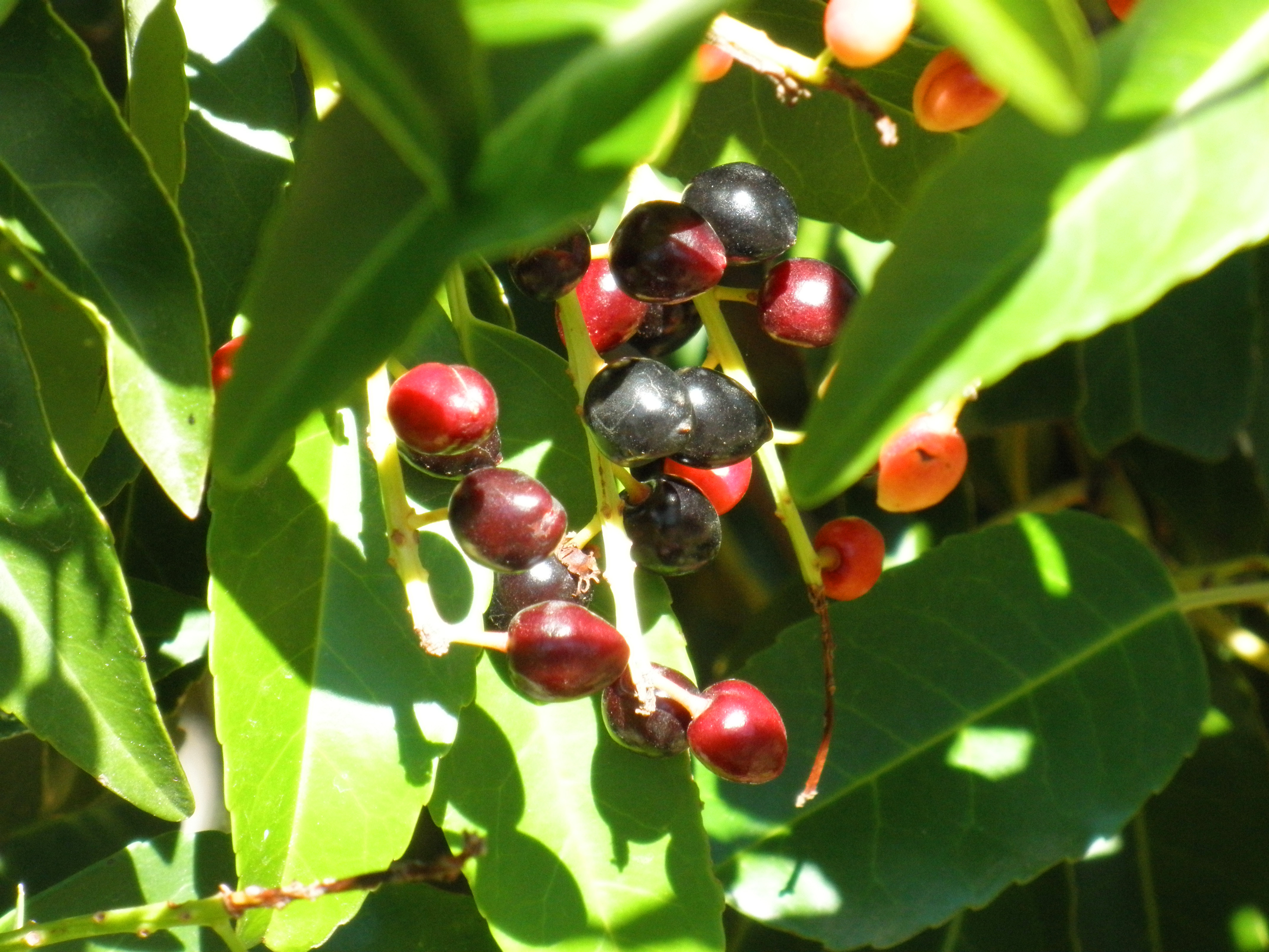 Prunus lusitanica fruits, Dehesa Boyal de Puertollano, Spain